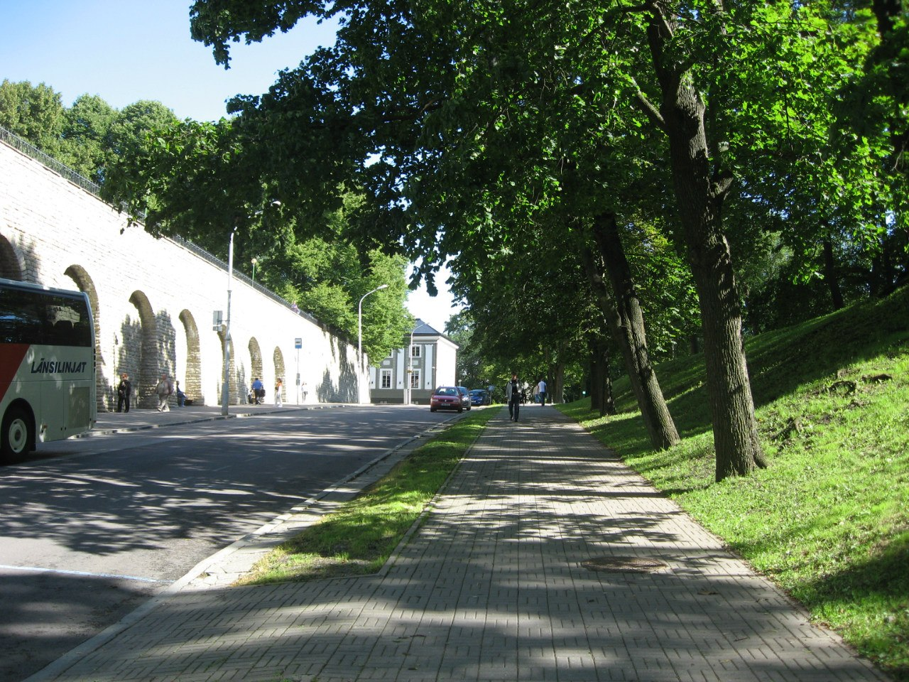 Falgi tee